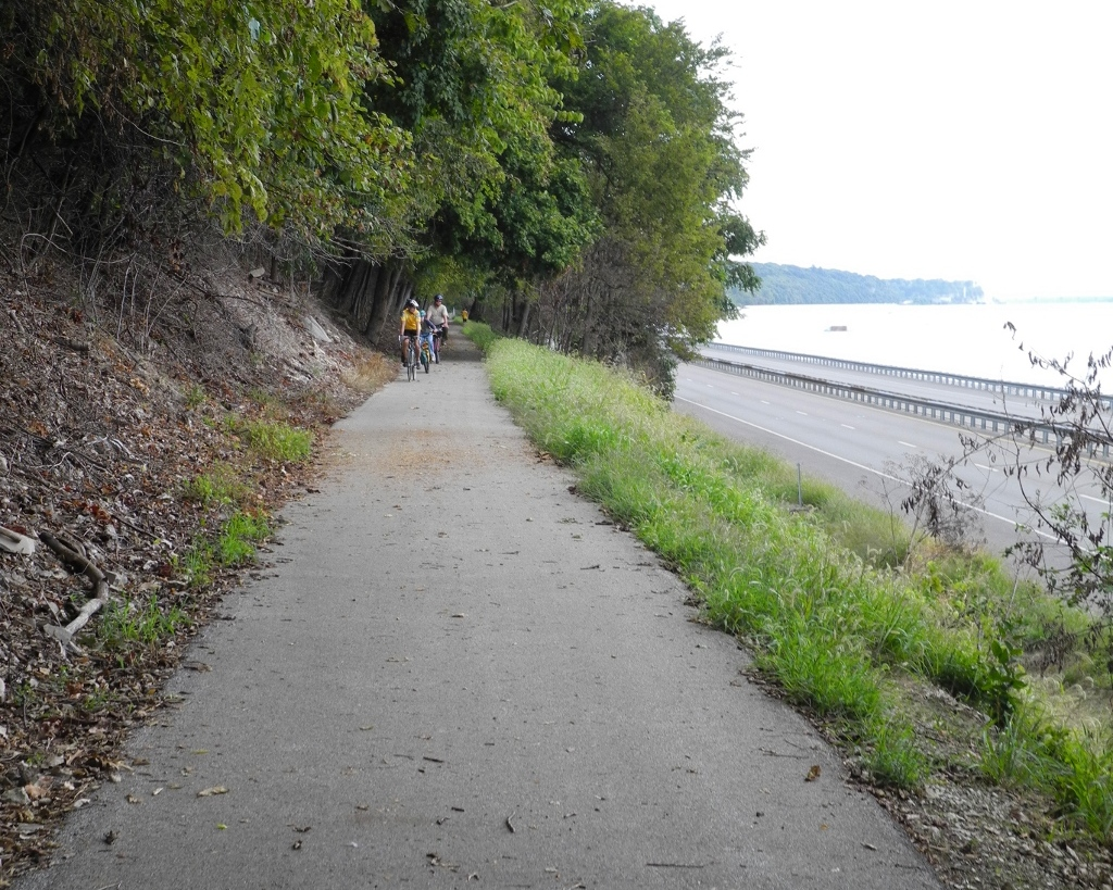 A portion of the Sam Vadalabene Bike Trail along the Mississippi River in Madison County, Illinois